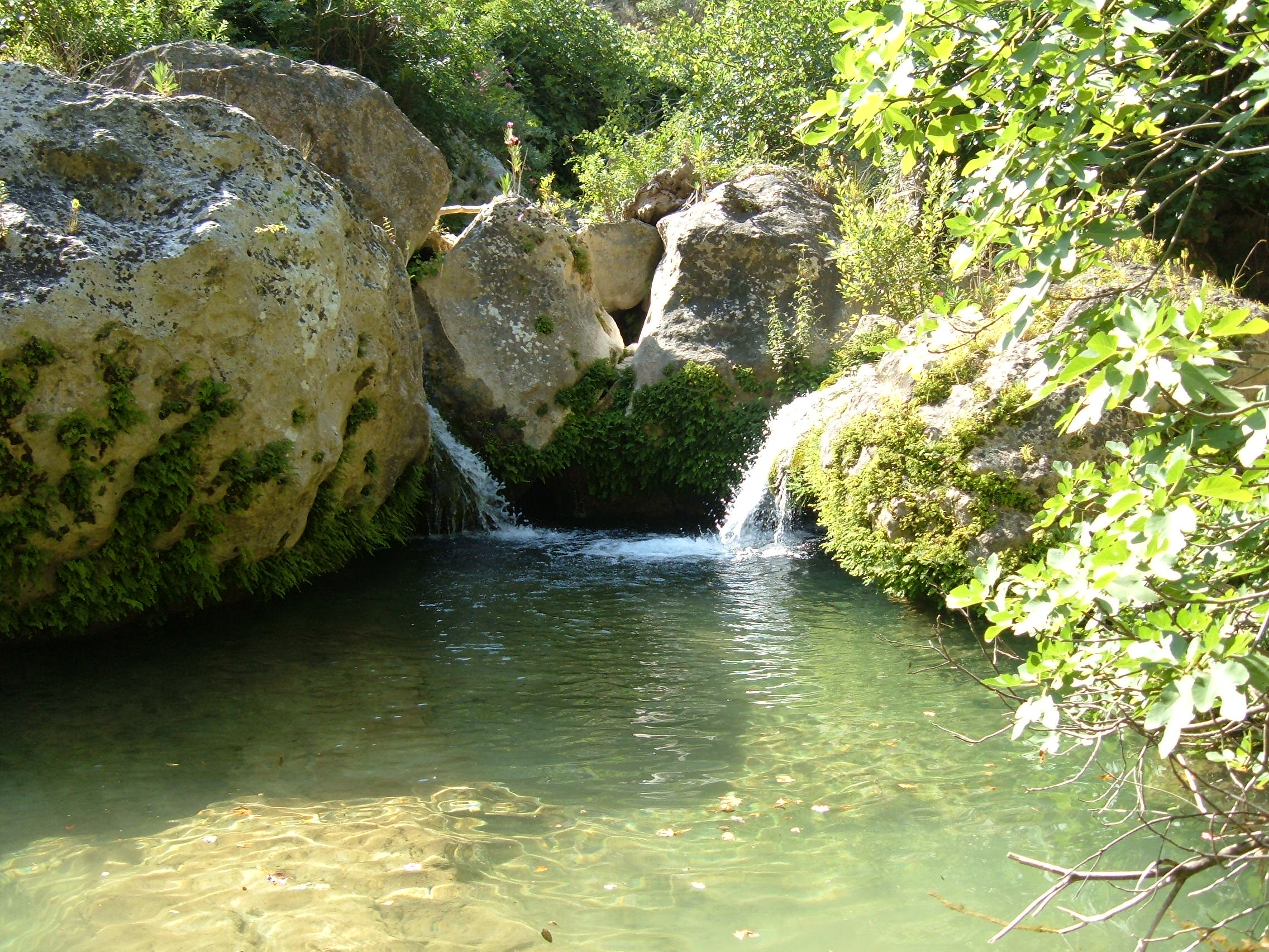 To Avola, in province of Siracusa, there is an angle of Paradise, a reservoir natural, between the beautifulst natural reservoirs of the Sicily: Large quarry of the Cassibile River